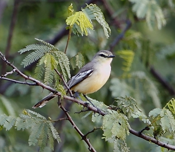 Greate wagtail tyrant at Potengi - Ceará - Brazil